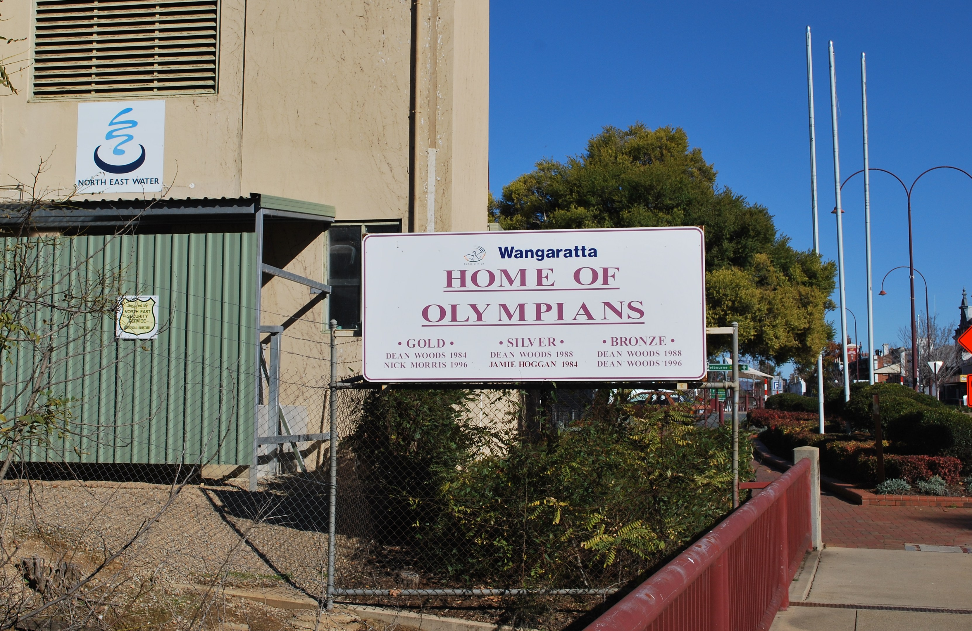 "Wangaratta, Home of Olympians" sign at Wangaratta, Victoria